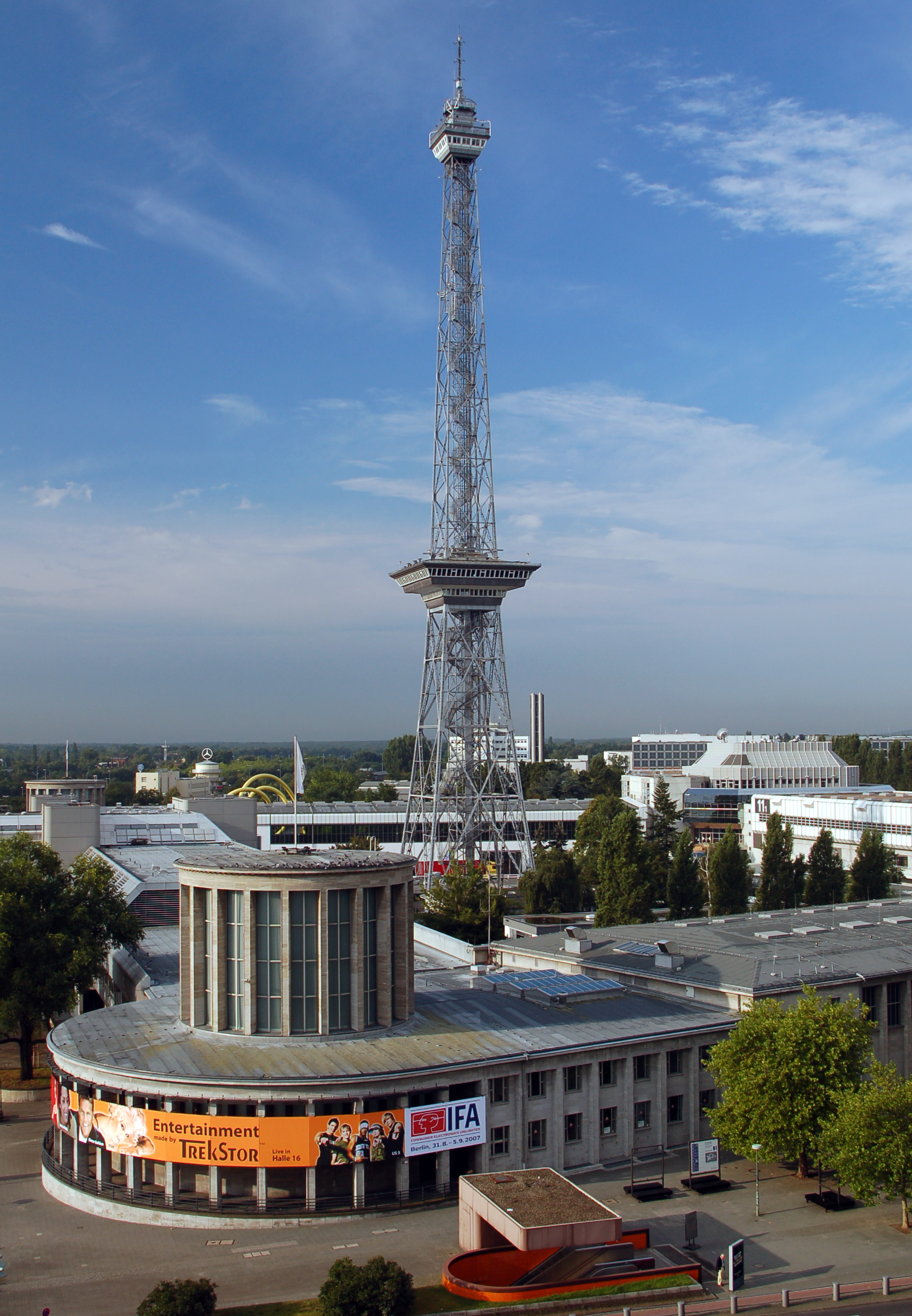 Berliner Funkturm and fair ground